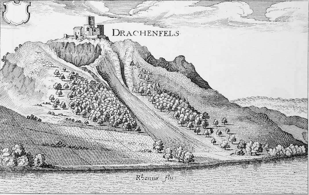 Engraving by Matthäus Merian shows Drachenfels (Siebengebirge) near Königswinter, North Rhine-Westphalia